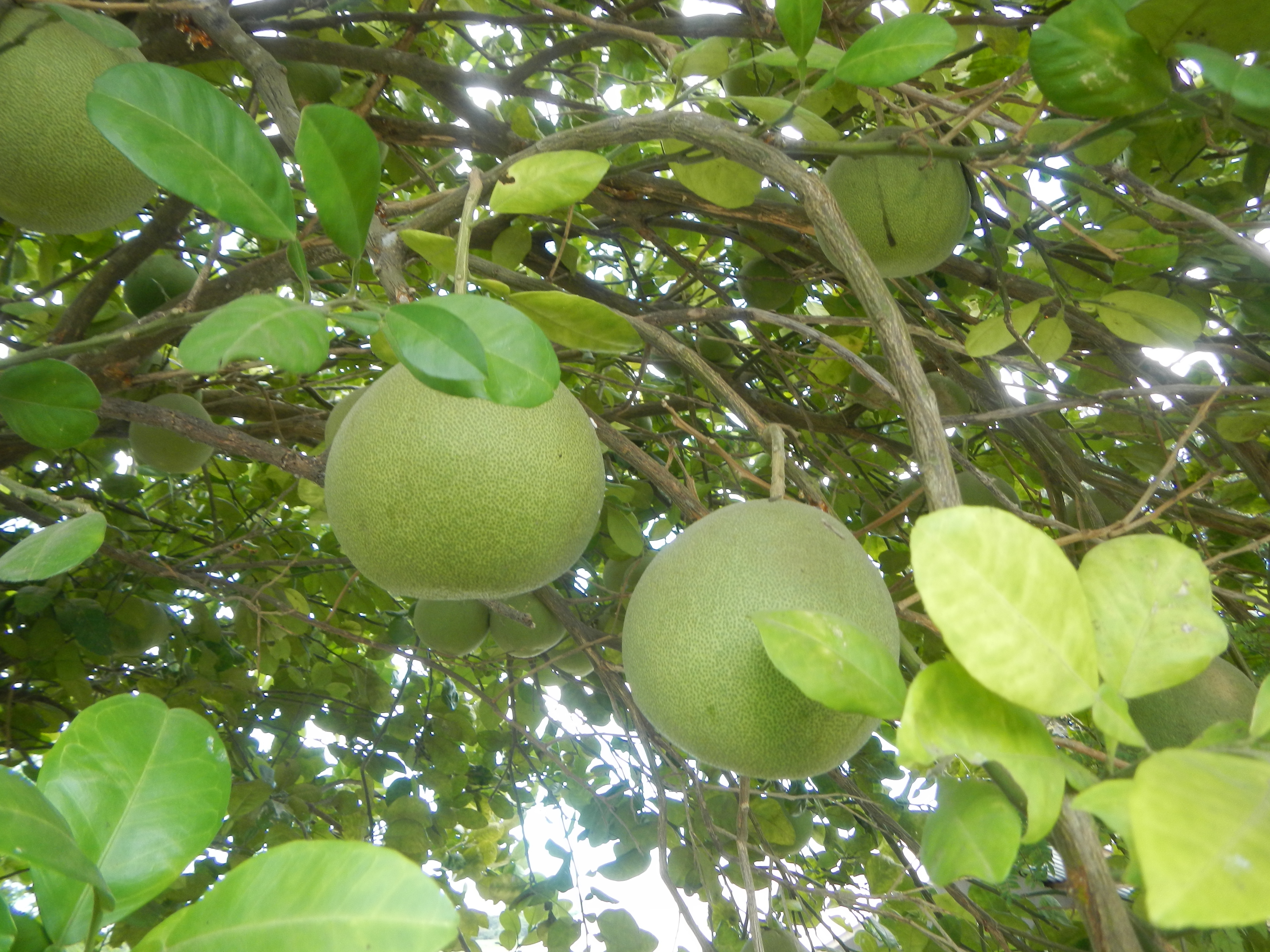 Rosales, Pangasinan, Pangasinan Province, Northern District in Barangay Carmay East, Landscape of Maize fields, Lukban (Philippines) white and pink wild flowers, upon grasslands in Carmay West beside (Rizal and Casanicolasan, Rosales, Pangasinan, Pangasinan Province connected by the Andulan Bridge, K0175+859 15 Tons to Casanicolasan, Rosales, Pangasinan Elementary School, Hall, Bridge, Aris Irrigation, Rizal Dike, connected by the Lagasit Bridge upon the (Lagasit River, Rosales, Pangasinan) upon Agno River all these are at the foot of Mount Balungao (along the Pangasinan-Nueva Vizcaya Road, National Road widening from K0 172+069 to K0 196+038.80 interconnecting with MacArthur Highway (Rosales, Pangasinan section) of MacArthur Highway or Manila North Road).